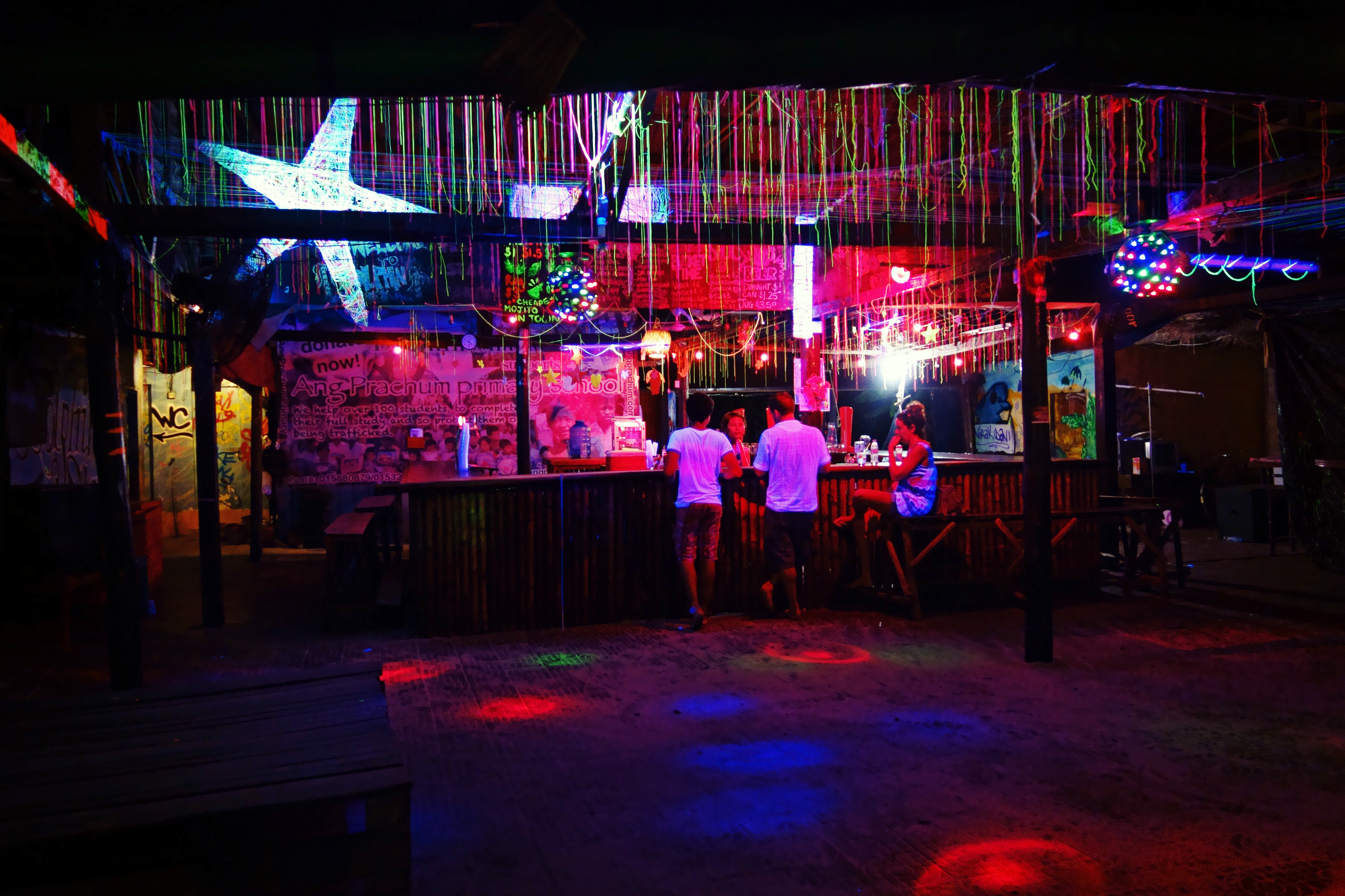 Three customers at a brightly-lit bar.